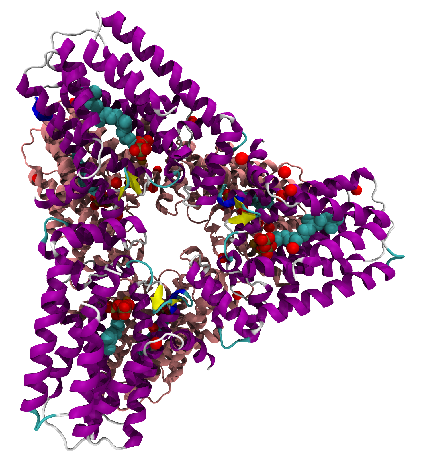 ribbon model of human GGPP synthase hexamer with GGPP as balls after PDB 2Q80. Ref.: Kavanagh KL, Dunford JE, Bunkoczi G, Russell RG, Oppermann U (August 2006). "The crystal structure of human geranylgeranyl pyrophosphate synthase reveals a novel hexameric arrangement and inhibitory product binding". J. Biol. Chem. 281 (31): 22004–12. PMID 16698791. This 3D molecular image was created with VMD